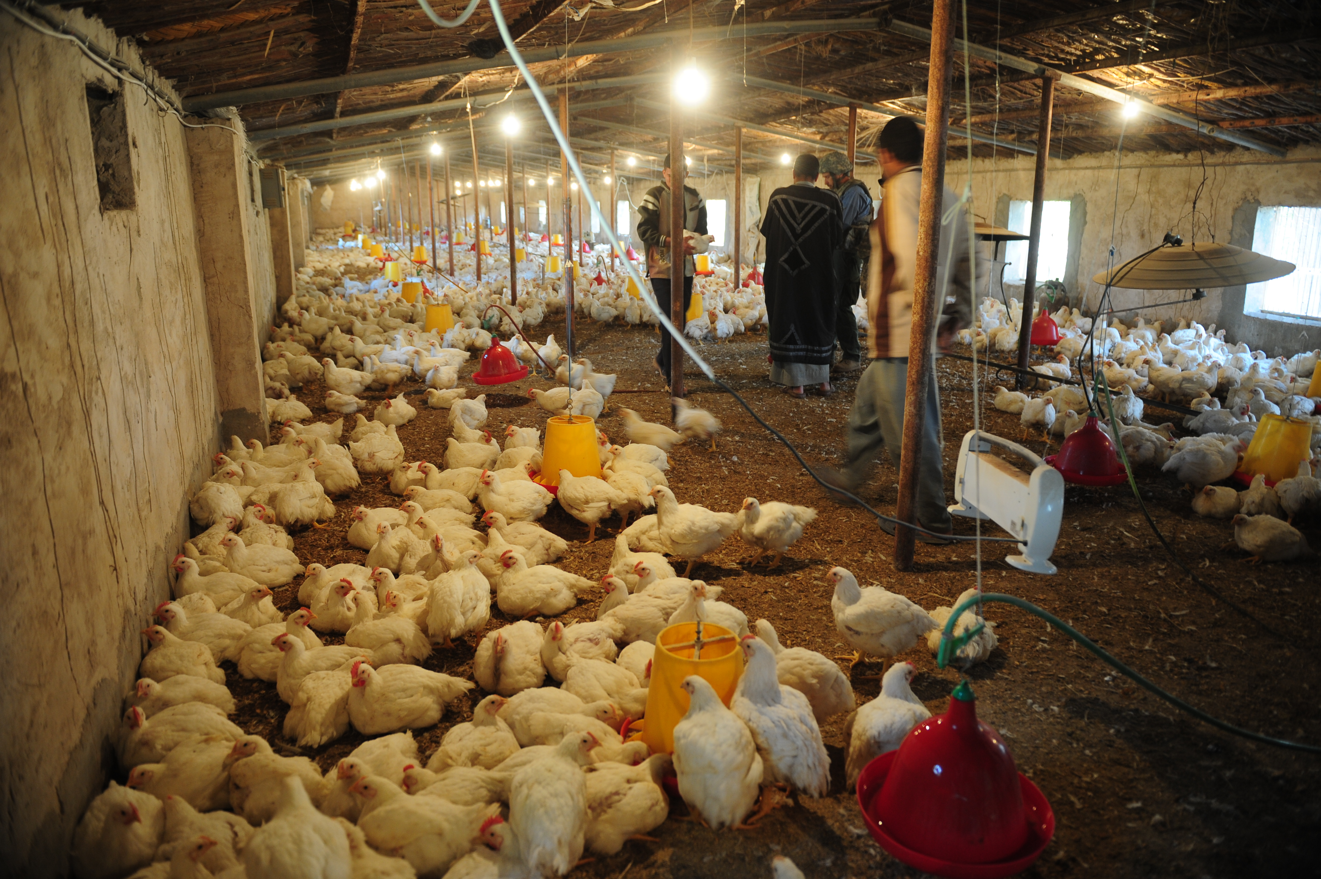 A chicken farm in Zambraniyah, Iraq.